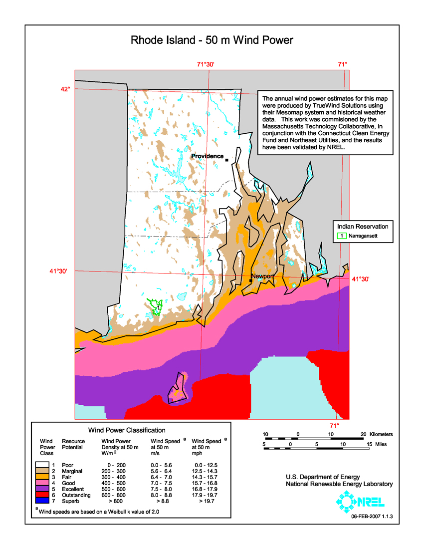 Average annual wind power distribution for Rhode Island, 50m height above ground, also showing location of existing electrical transmission lines